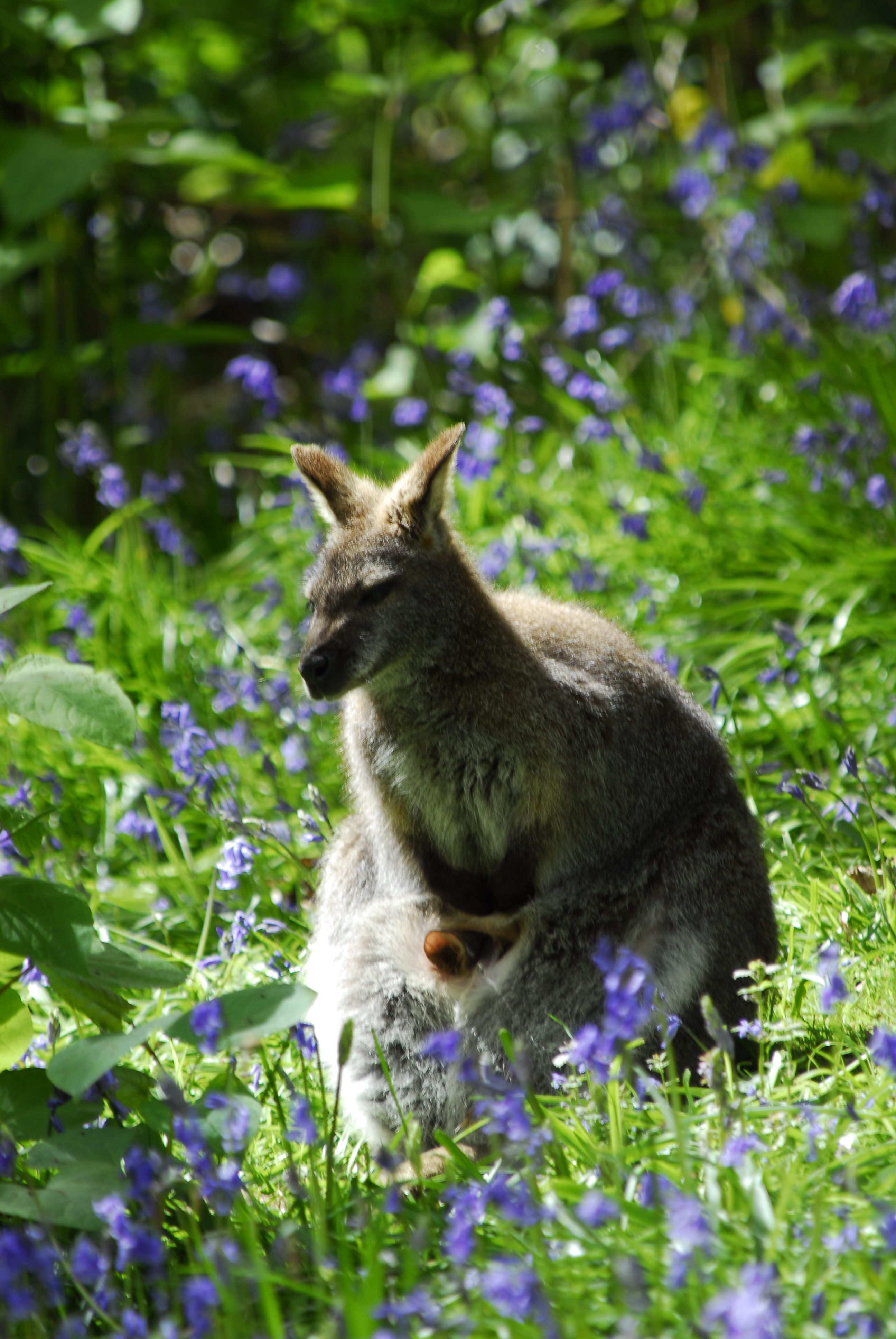 Wallabies in the bluebells.